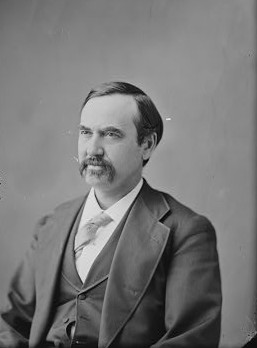 George Madison Adams (1837 - 1920), U.S. Representative from Kentucky